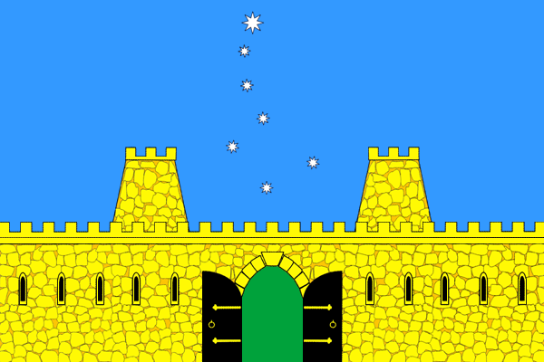 Flag of Starominsky rayon, Krasnodar Territory, Russia